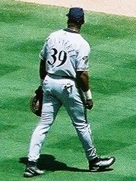 Secretary Mel Martinez on visit to Miami, Florida for speeches, meetings, tours, including appearance at breakfast hosted by Cuban-American leaders; and appearance at Pro Players Stadium to throw out the first pitch at a Florida Marlins baseball game, to meet and greet group of 40 Miami Housing Authority children, and to attend a Catholic Charities USA reception.